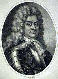 Godert de Ginkell, 1st Earl of Athlone, or Godart van Ginkel, and in the Netherlands known as Godard van Reede (Utrecht, 1630 – February 11, 1703, Utrecht) was a Dutch general in the service of England.